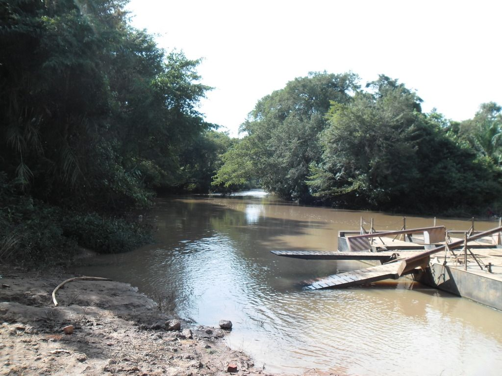 The ferry boat crossing the river to the north of Djemah, Central African Republic.